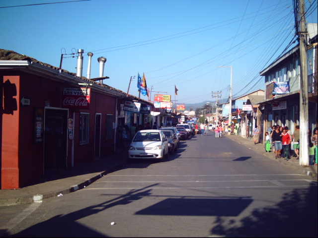 Pelluhue, town in the Maule coast, Chile